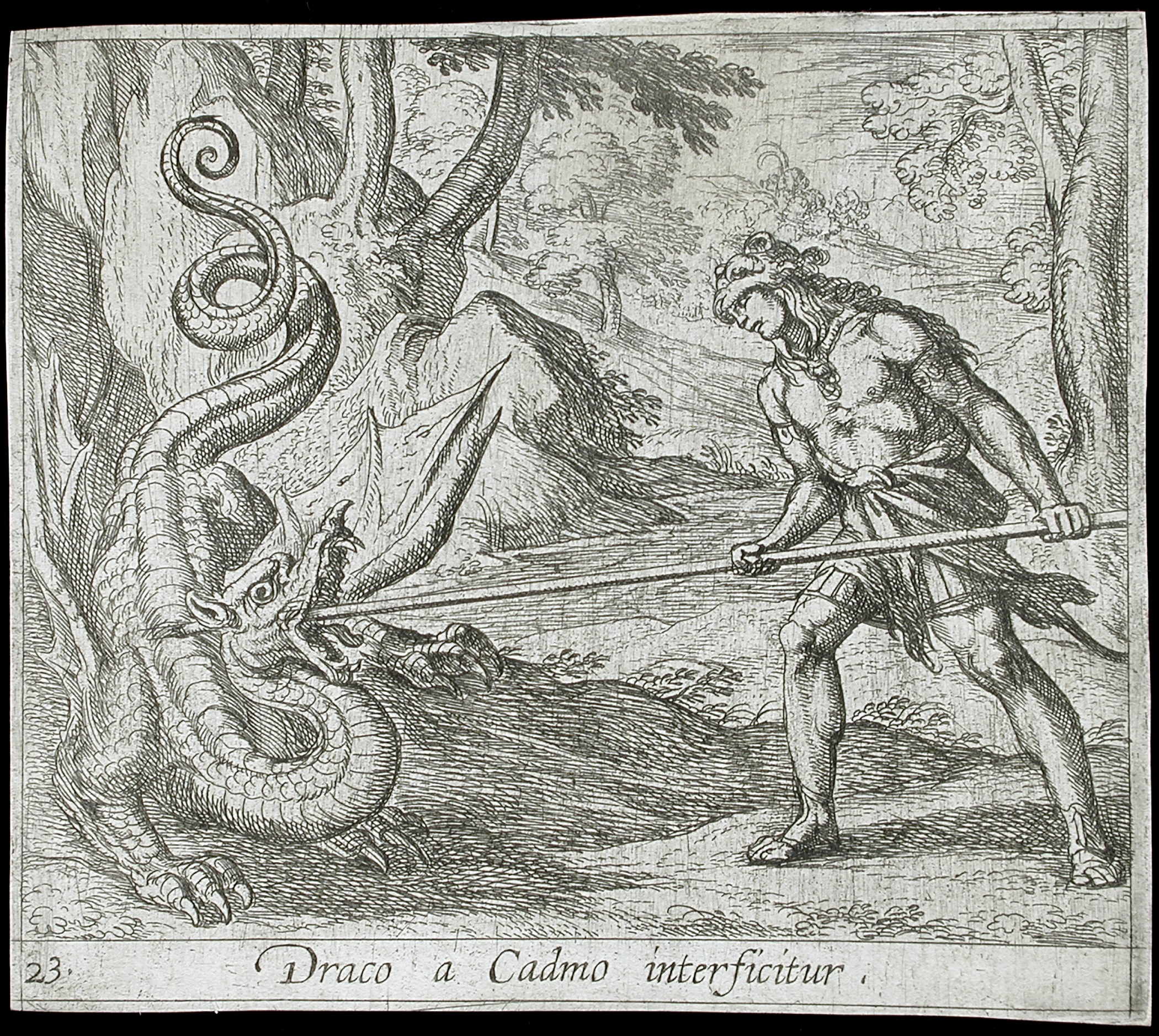 Italy, published 1606 Alternate Title: Draco a Cadmo interficitur Series: The Metamorphoses of Ovid, pl. 23 Edition: Second edition Prints; etchings Etching Los Angeles County Fund (65.37.107) Prints and Drawings